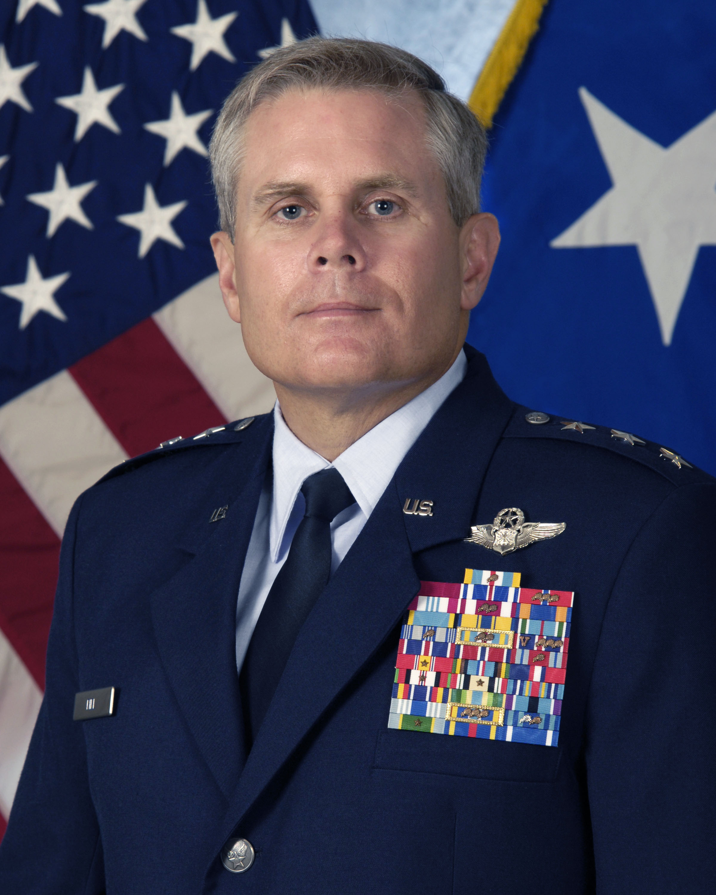 Official Air Force picture of General Eric E Fiel